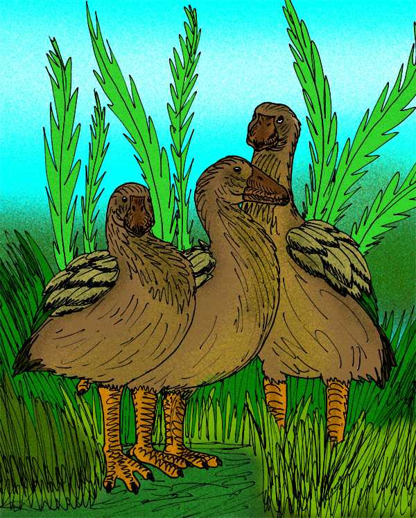 Reconstruction of the Oahu Moa-nalo, Thambetochen xanion, from the Late Pleistocene. (C) Stanton F. Fink